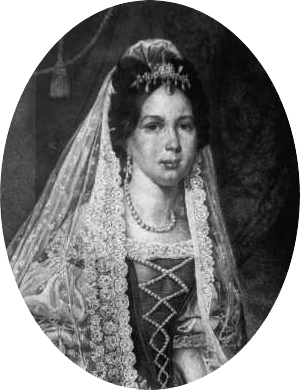 Princess Maria Dorothea of Württemberg 1797-1855, 3rd wife of Archduke Joseph Anton Johann of Austria, Palatin of Hungary